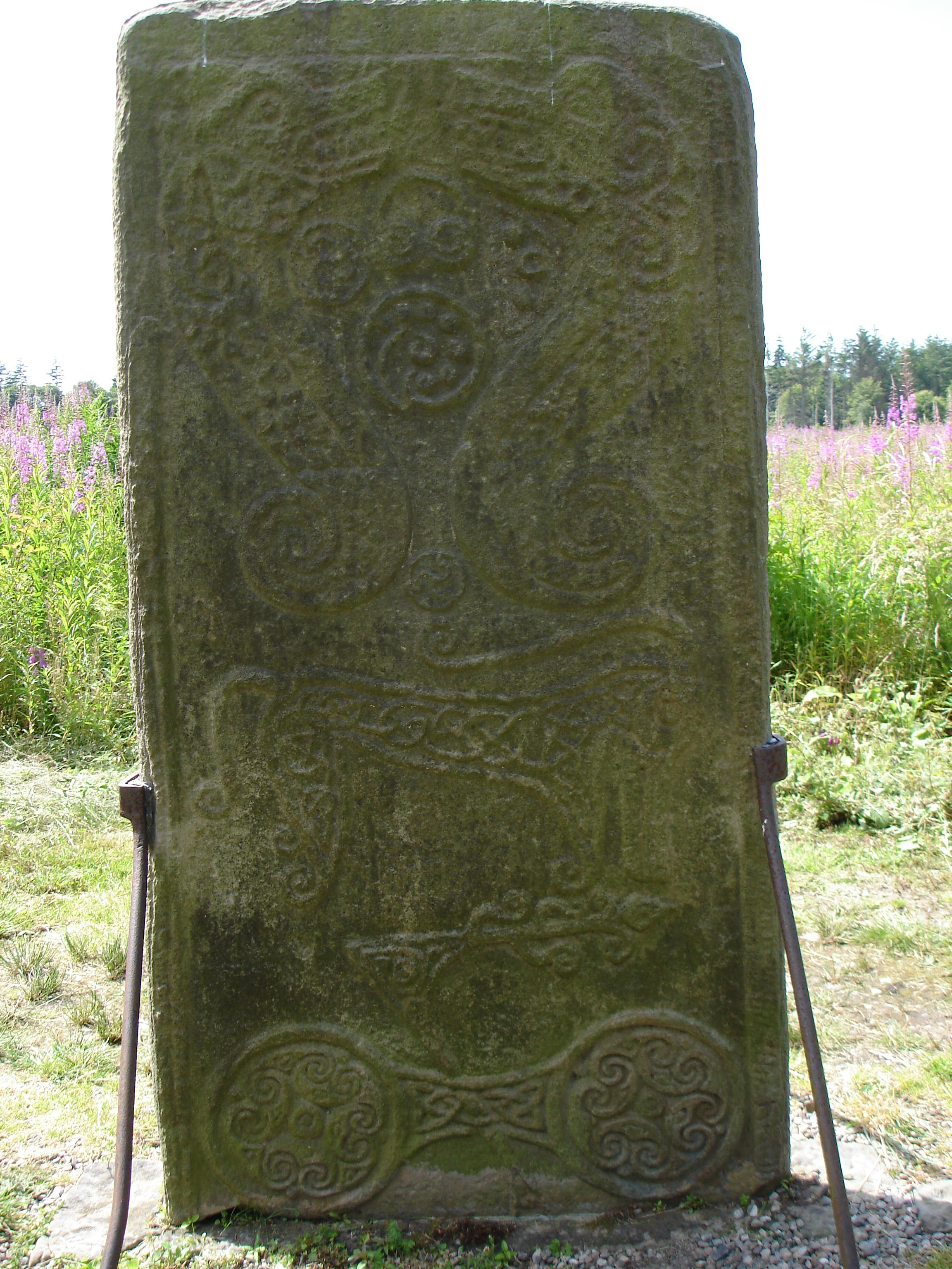 Rodney's Stone at Brodie Castle. This fine Pictish Stone was found at the nearby Dyke church and relocated to the side of the entrance drive.